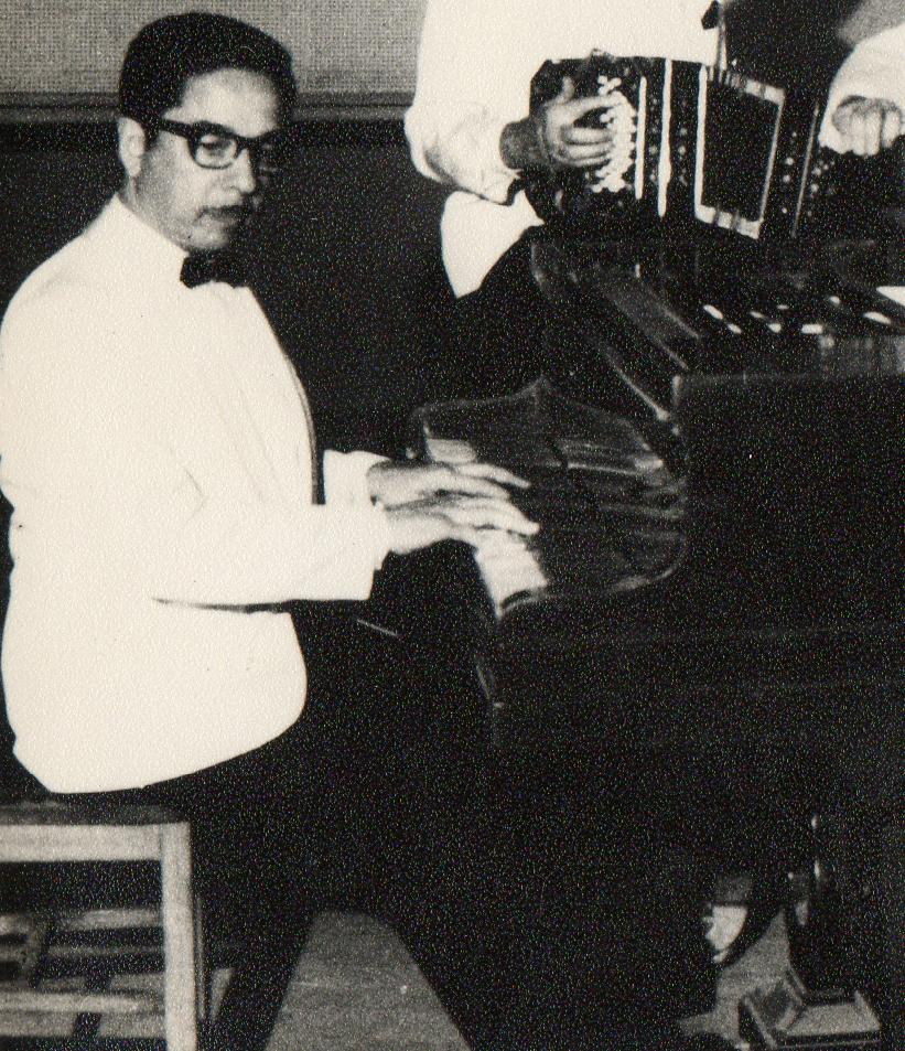 Horacio Salgán with the Quinteto Real (in 1964)